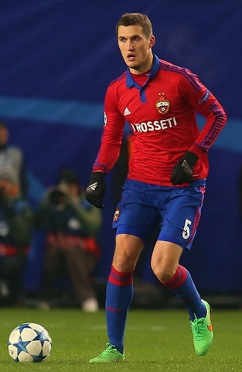 Viktor Vasin